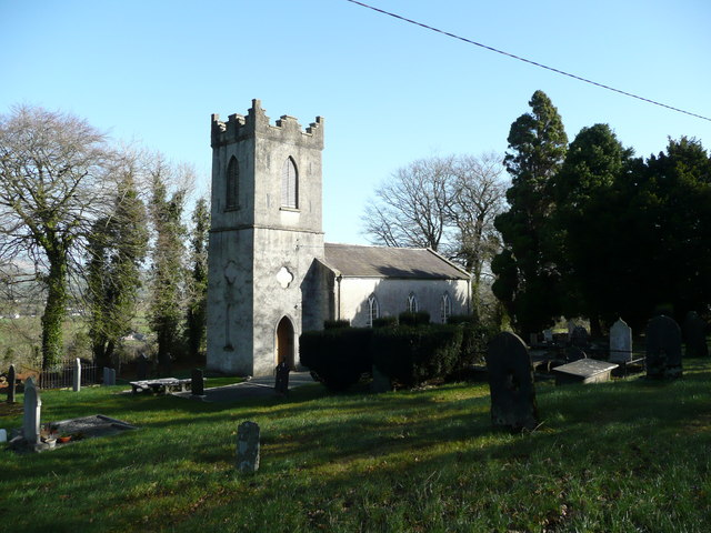 St. John's church, Hollyfort. A Church Of Ireland place of worship.